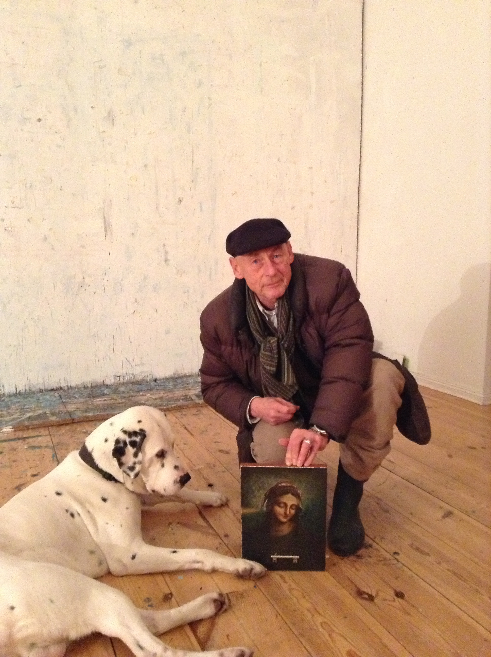 Portrait of German artist Hans Peter Adamski, 2013